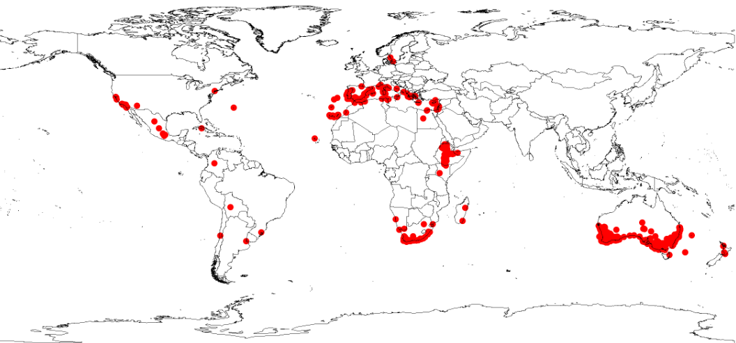 Acacia saligna (1st March 2019) GBIF Occurrence Download